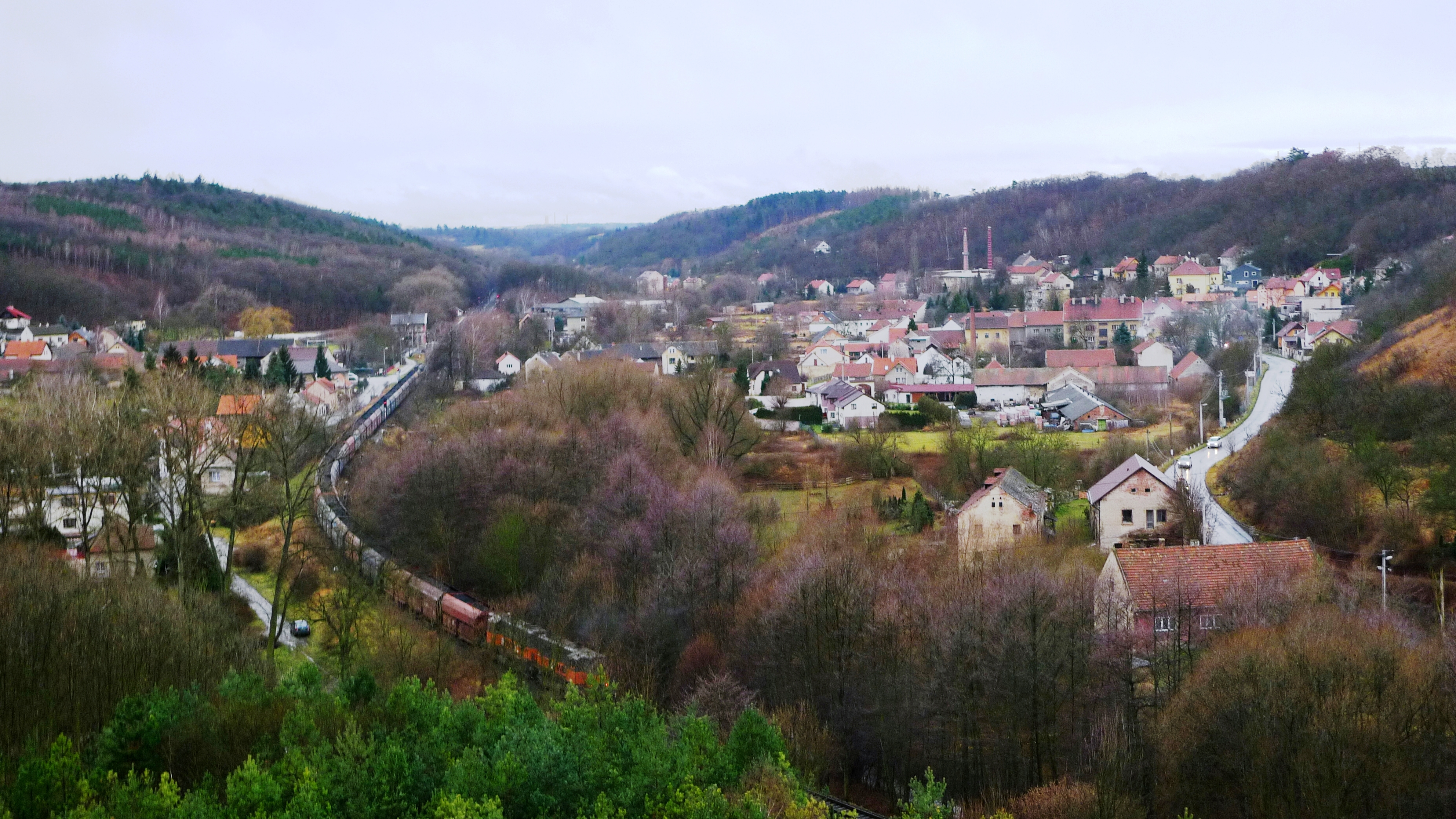 Village of Otvovice as seen from Otvovice Rock (Otvovická skála), Kladno District, Czech Republic.